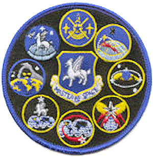 50th Operations Group Gaggle Patch